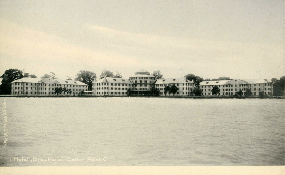 Photo of Cedar Point's Hotel Breakers from the lake taken by C.W. Platt in 1905